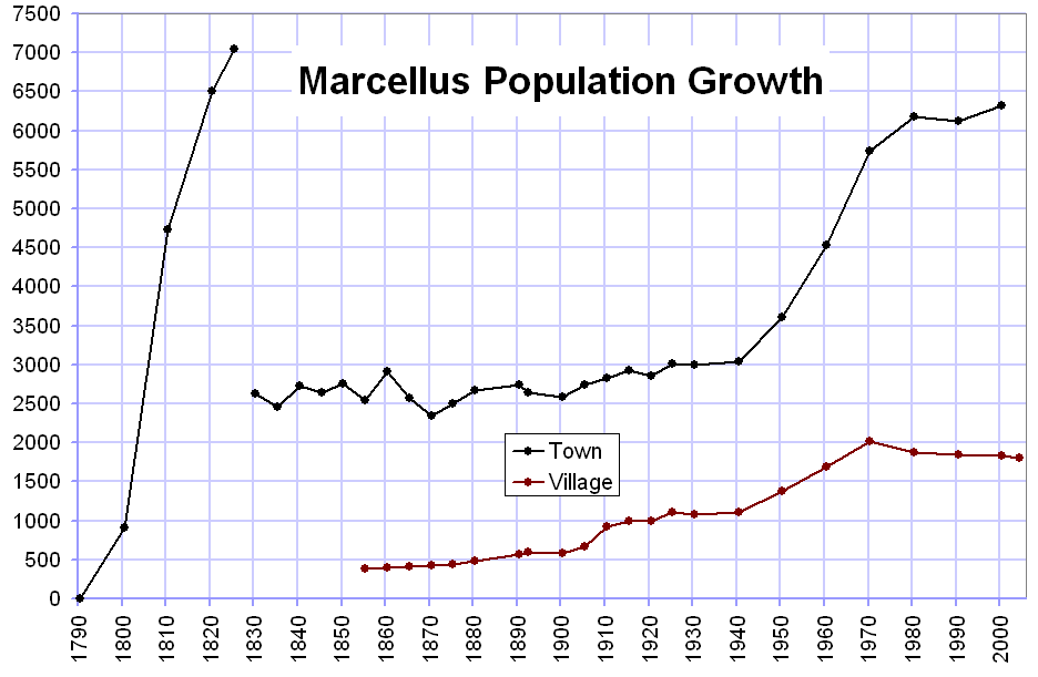 Population of the Town and Village of Marcellus, New York from 1790 to 2005. The data for this graph was primarily from with 2001-2004 from U.S. Census Estimates. The graph was created using Microsoft Excel and cropped and converted to png format using Adobe Photoshop. The rapid decline between 1825 and 1830 was due to both a decrease in the area of the town and the general population shift westward.